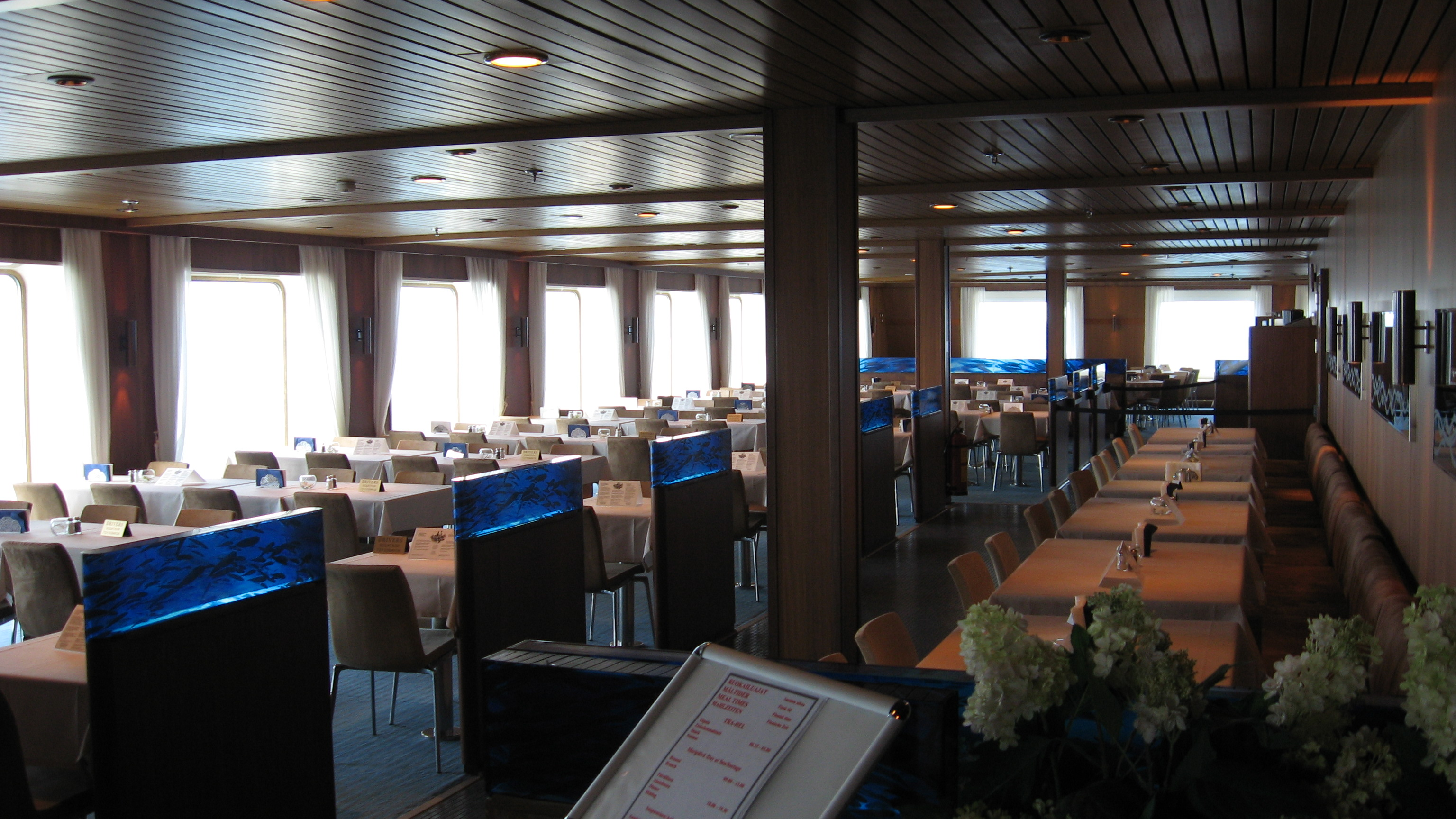 Restaurant in Finnish cargo ship M/S Finnlady.